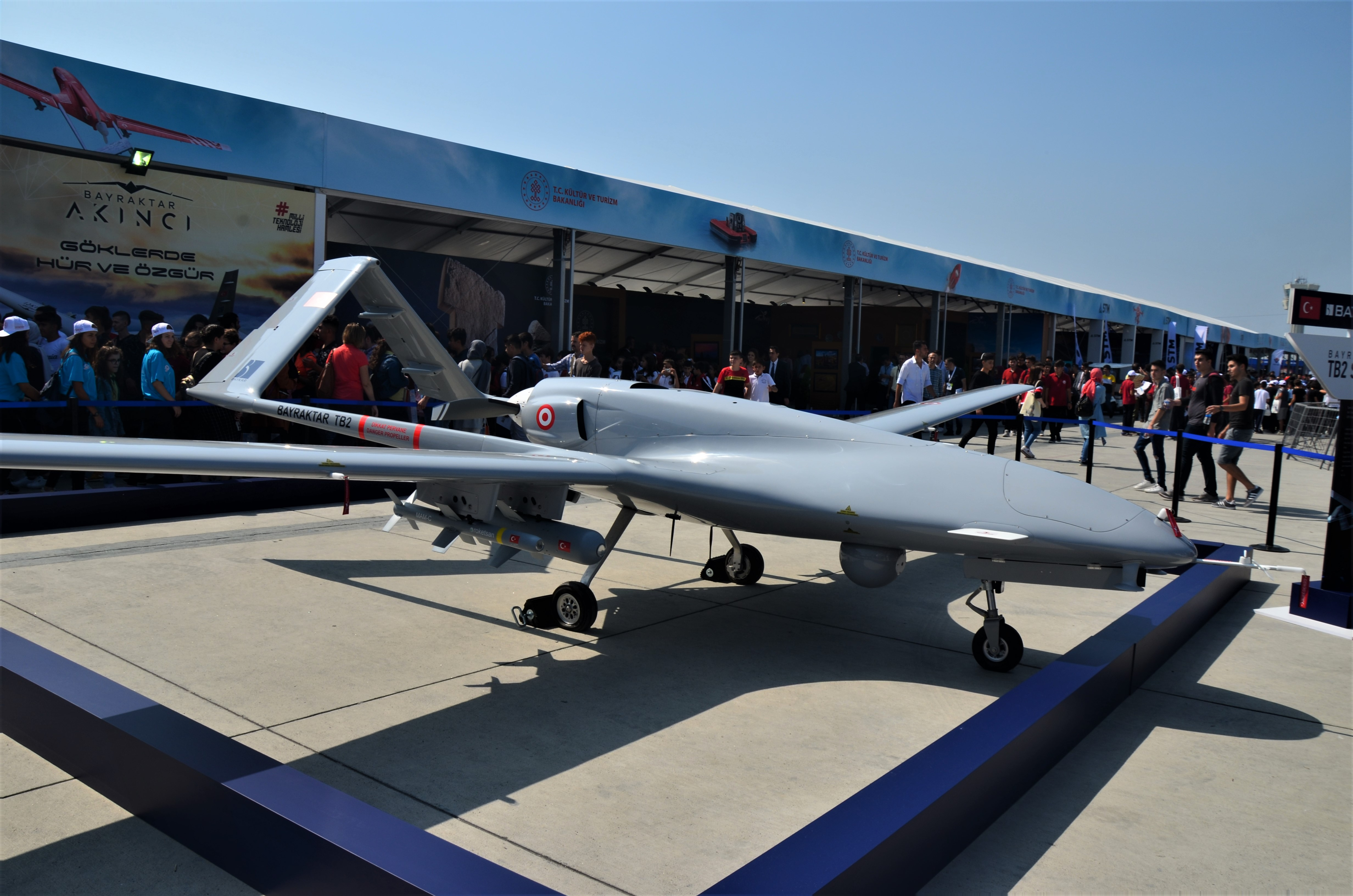 Unmanned aerial vehicle TB2 of Bayraktar at Teknofest 2019